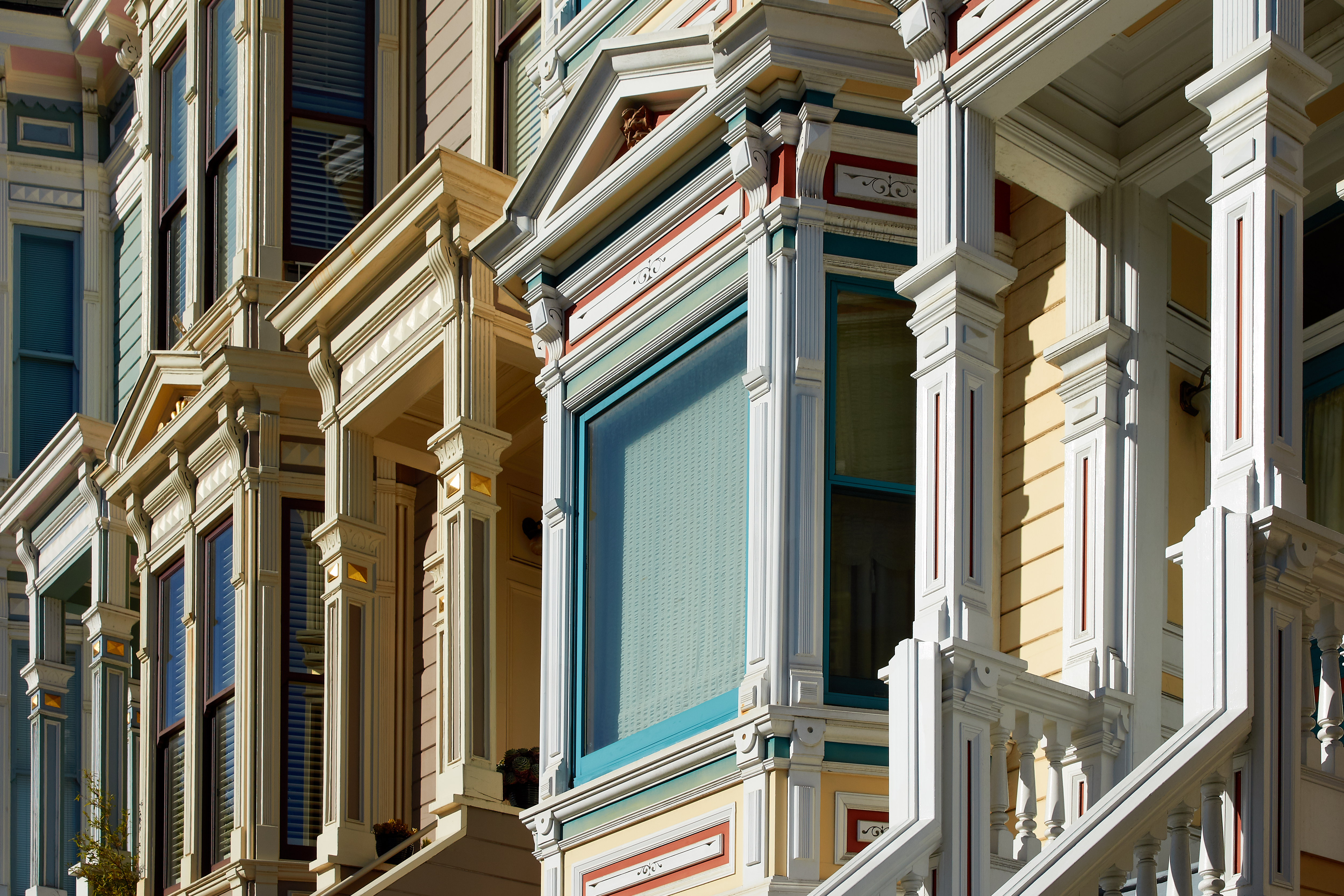 Victorian facades on 16th Street in San Francisco, California, United States